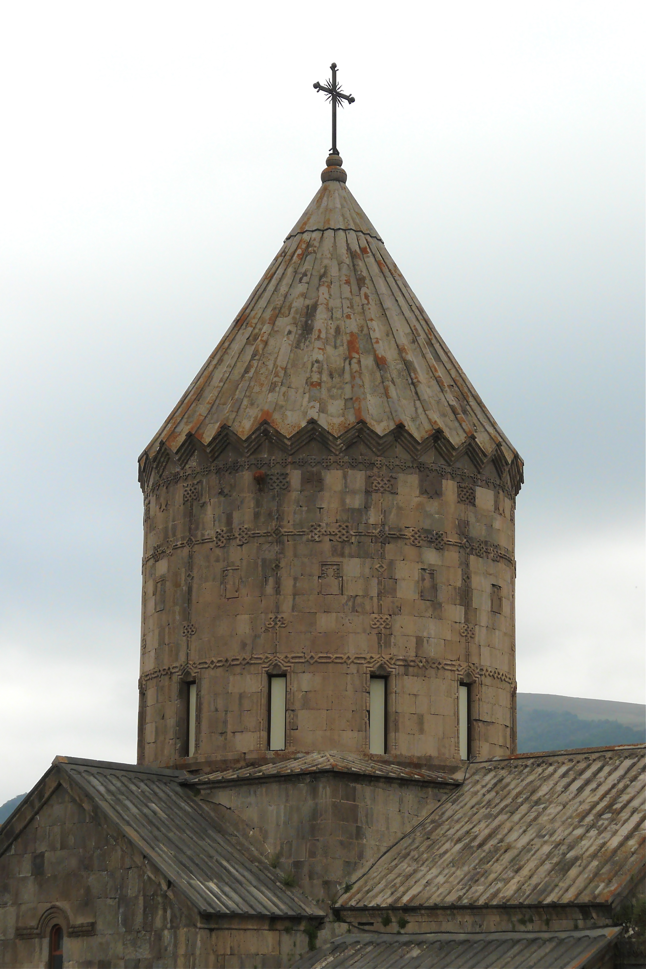 Drum of St. Paul and St. Peter Church, Tatev, Armenia. 97/9.11